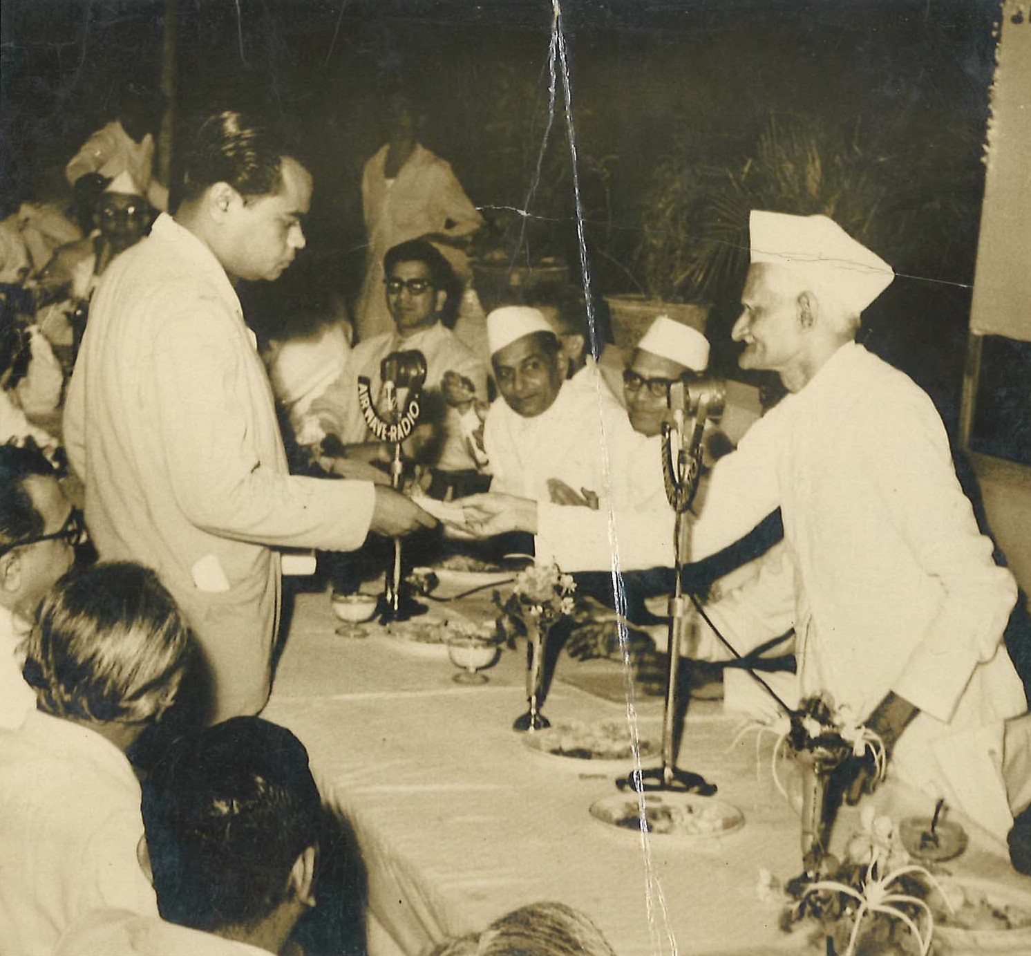 Gujarati writer Chunilal Madia receiving Ranjitram Gold Medal from Ramnarayan V. Pathak, Ahmedabad, 1958